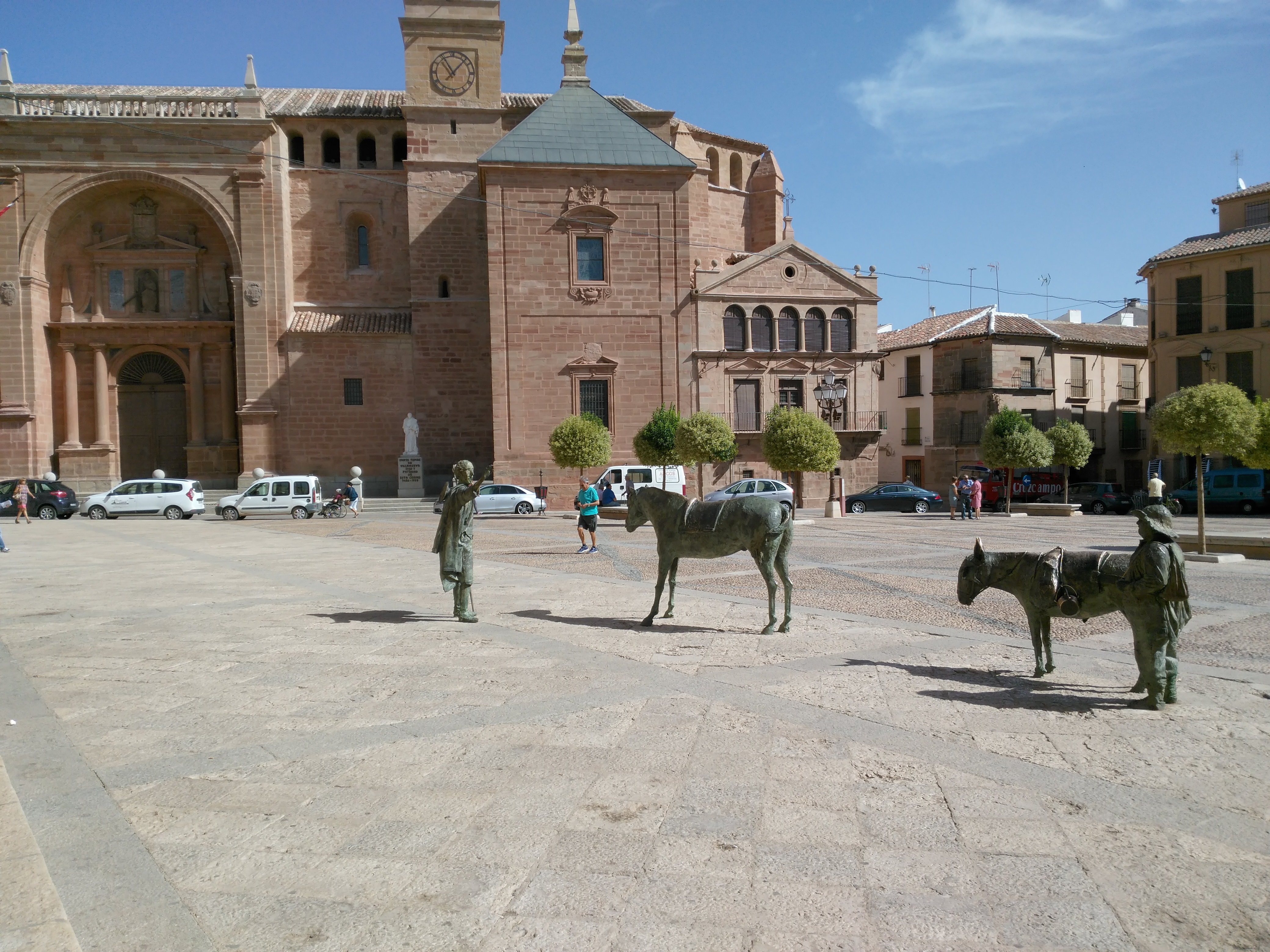 Main center of Villanueva de los Infantes with Don Quijote statue and church, Ciudad Real, Spain